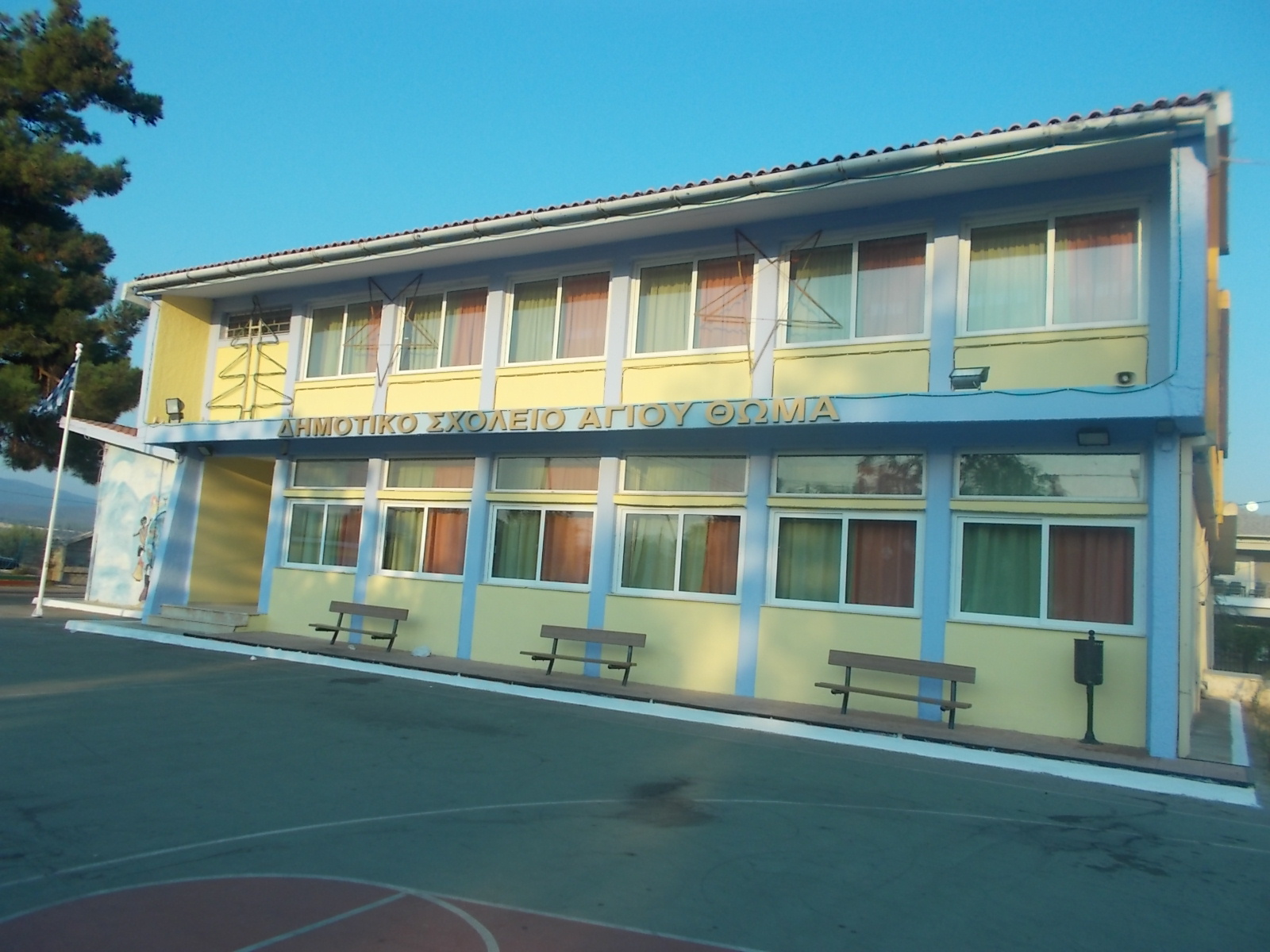 School in Agios Thomas, Boeotia, Greece